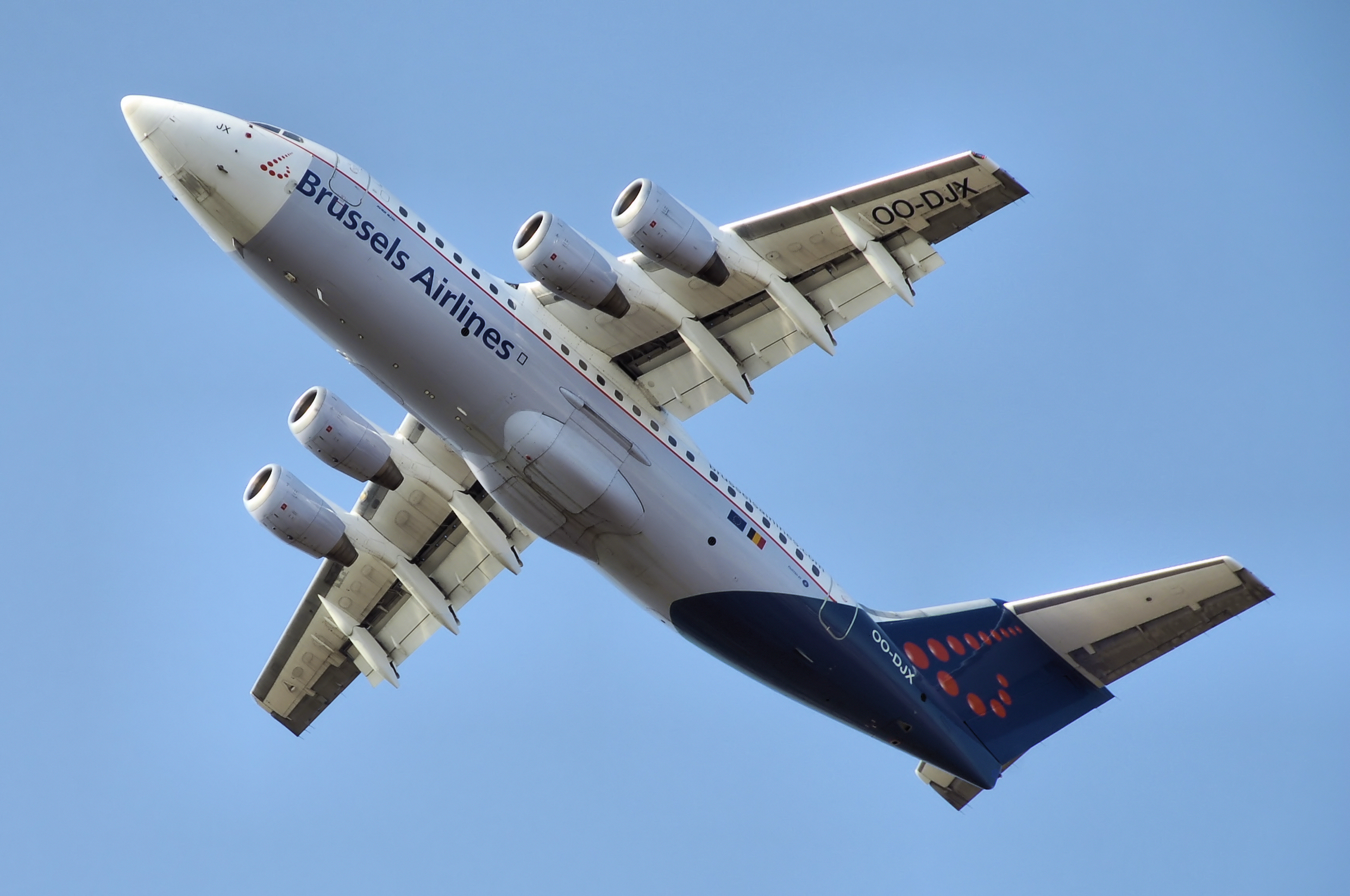 Brussels Airlines Avro RJ85 (OO-DJX) takes off from Birmingham International Airport, England.